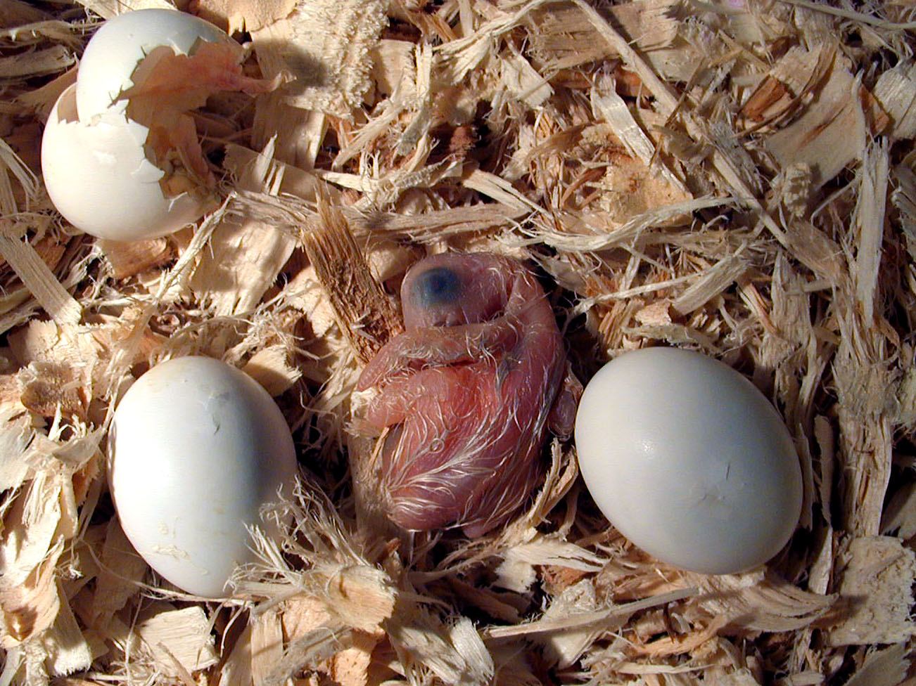 Congo African Grey Parrot; two eggs, one egg shell, and one newly hatched chick in an incubator.